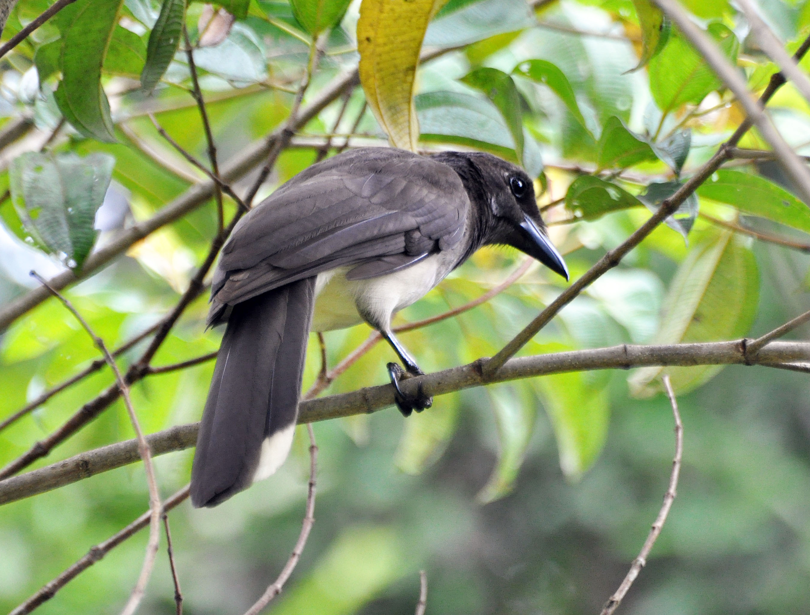 Psilorhinus morio cyanogenys 22-Mar-12 Rancho Naturalista, Costa Rica